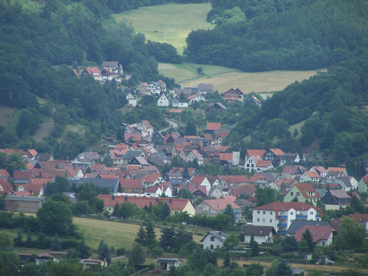 In the middle of Trusetal village.